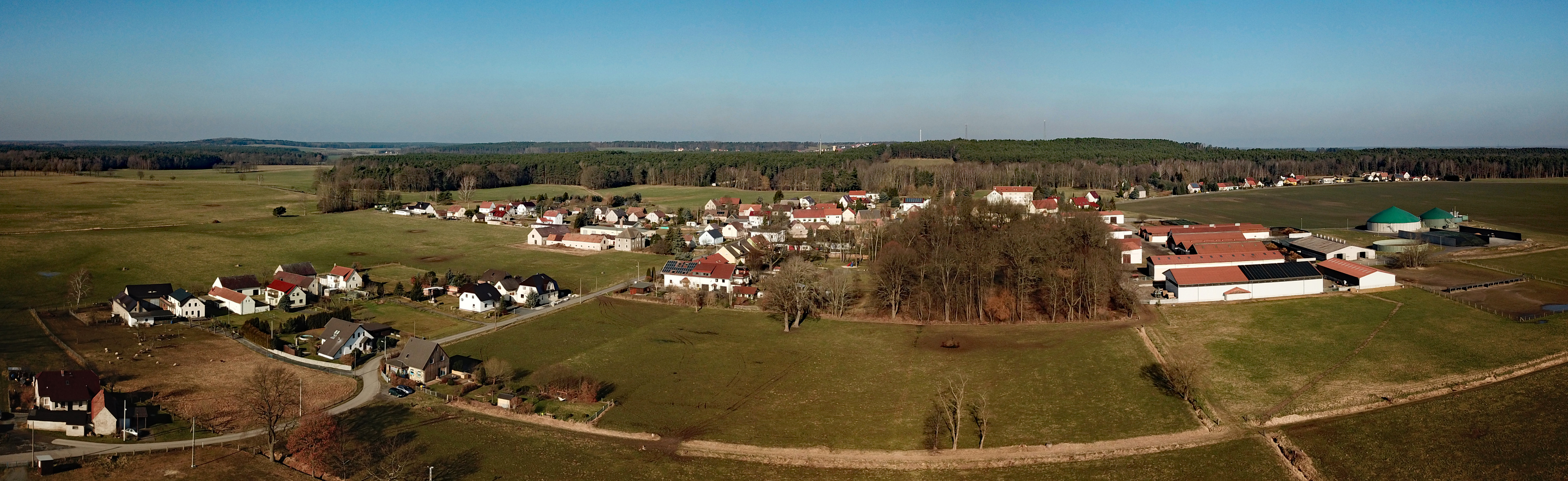 Skaska (Oßling, Saxony, Germany) Hornjoserbsce: Powětrowy wobraz Skaskowa